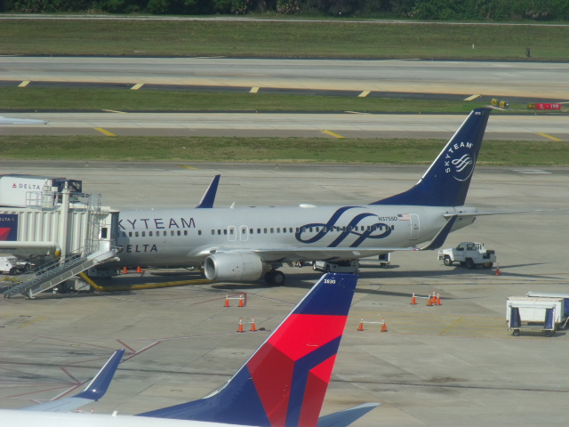 a photo i took of a delta airlines 737-800 at tpa